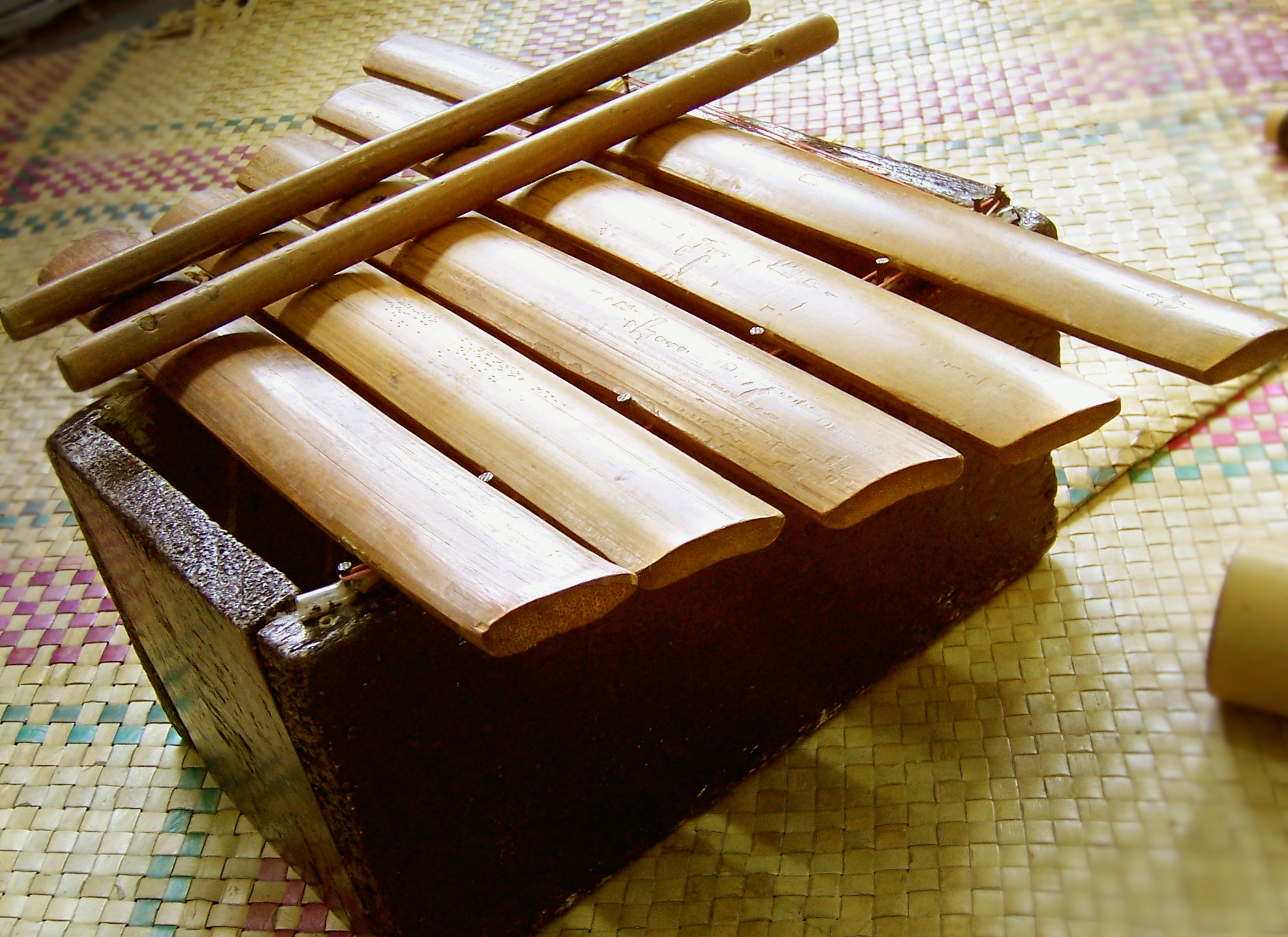 Gabbang instrument used by Kontra-Gapi